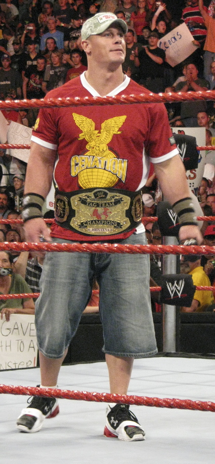 John Cena at a live event on Monday Night Raw in Richmond, Virginia 2008.